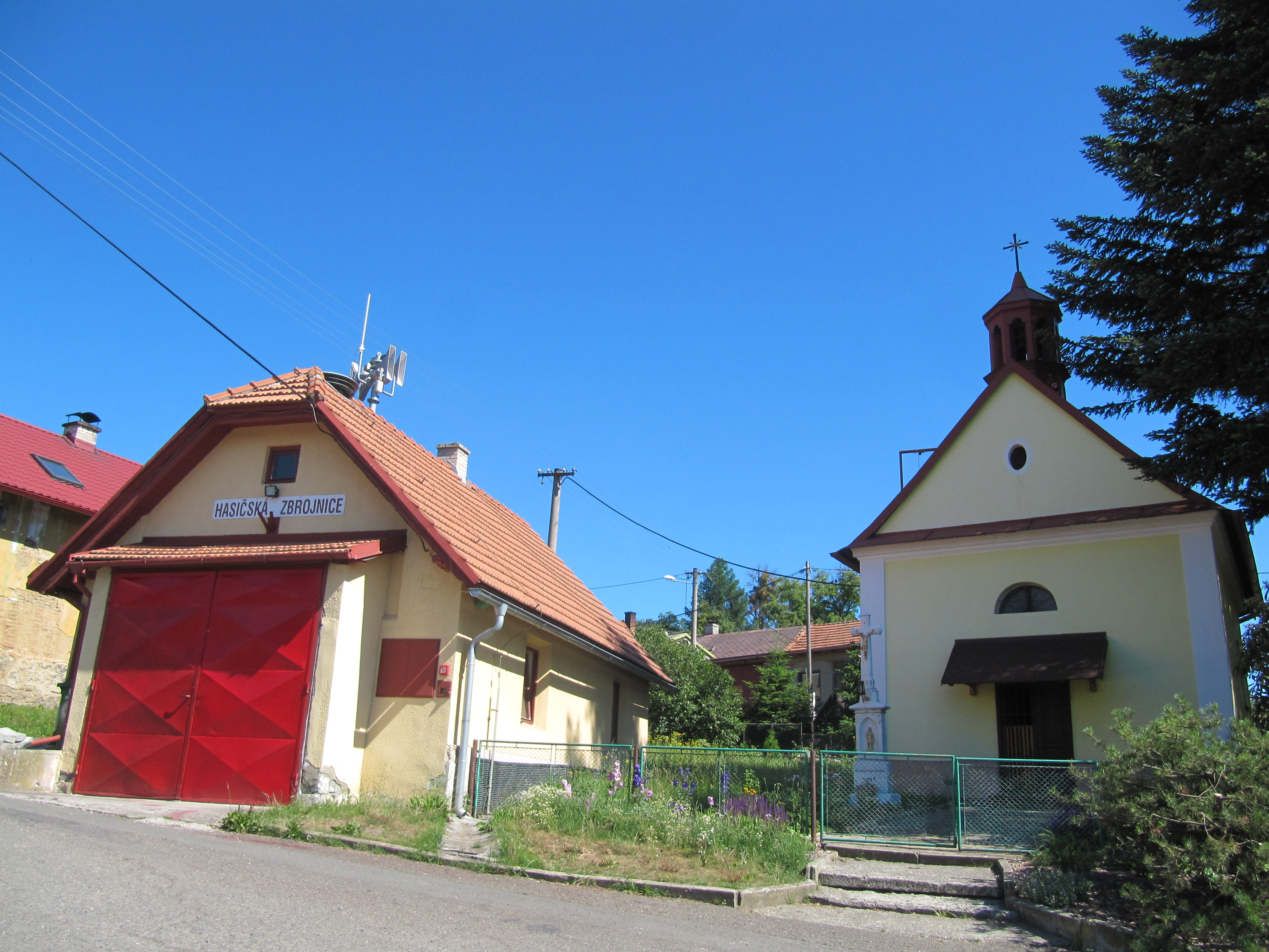 Fulnek, Nový Jičín District, Czech Republic, part Jílovec.